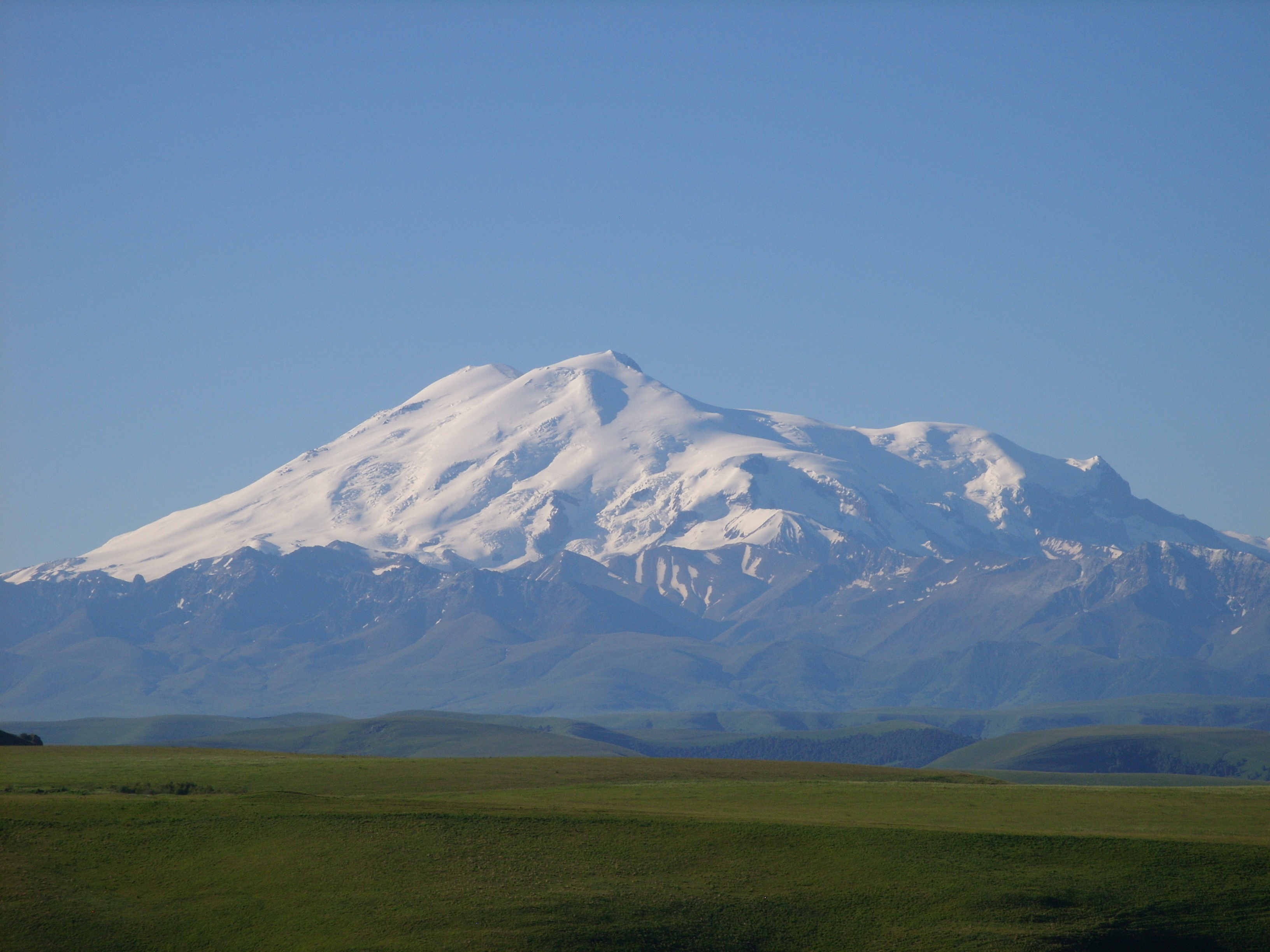 View to Elbrus from pass Gumbashi with zoom, Karachay-Cherkessia, Karachayevsky District, near Vеrkhnyaya Mara village